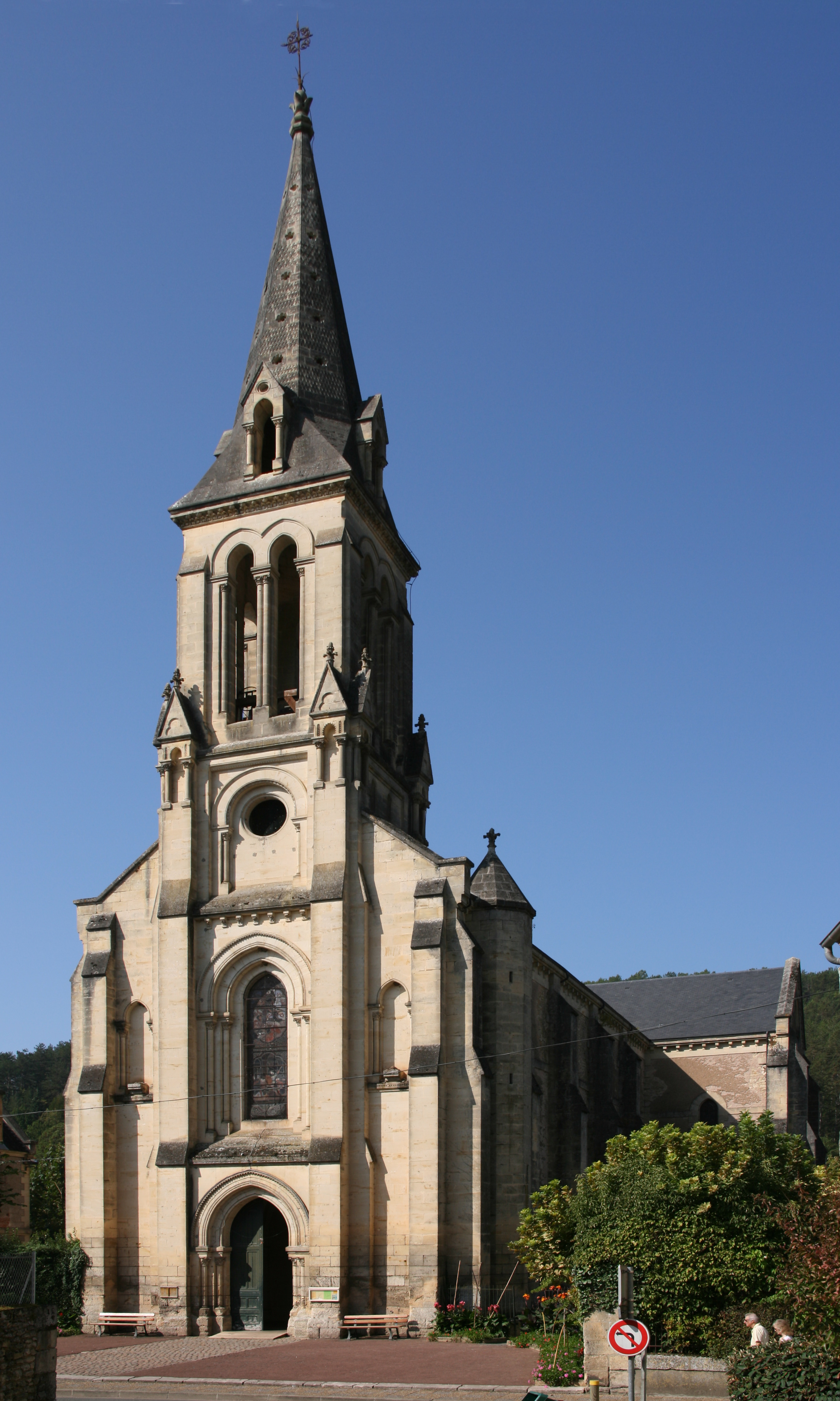 Church Saint-Sulpice of Le Bugue, Dordogne, Aquitaine, France. 19th century.